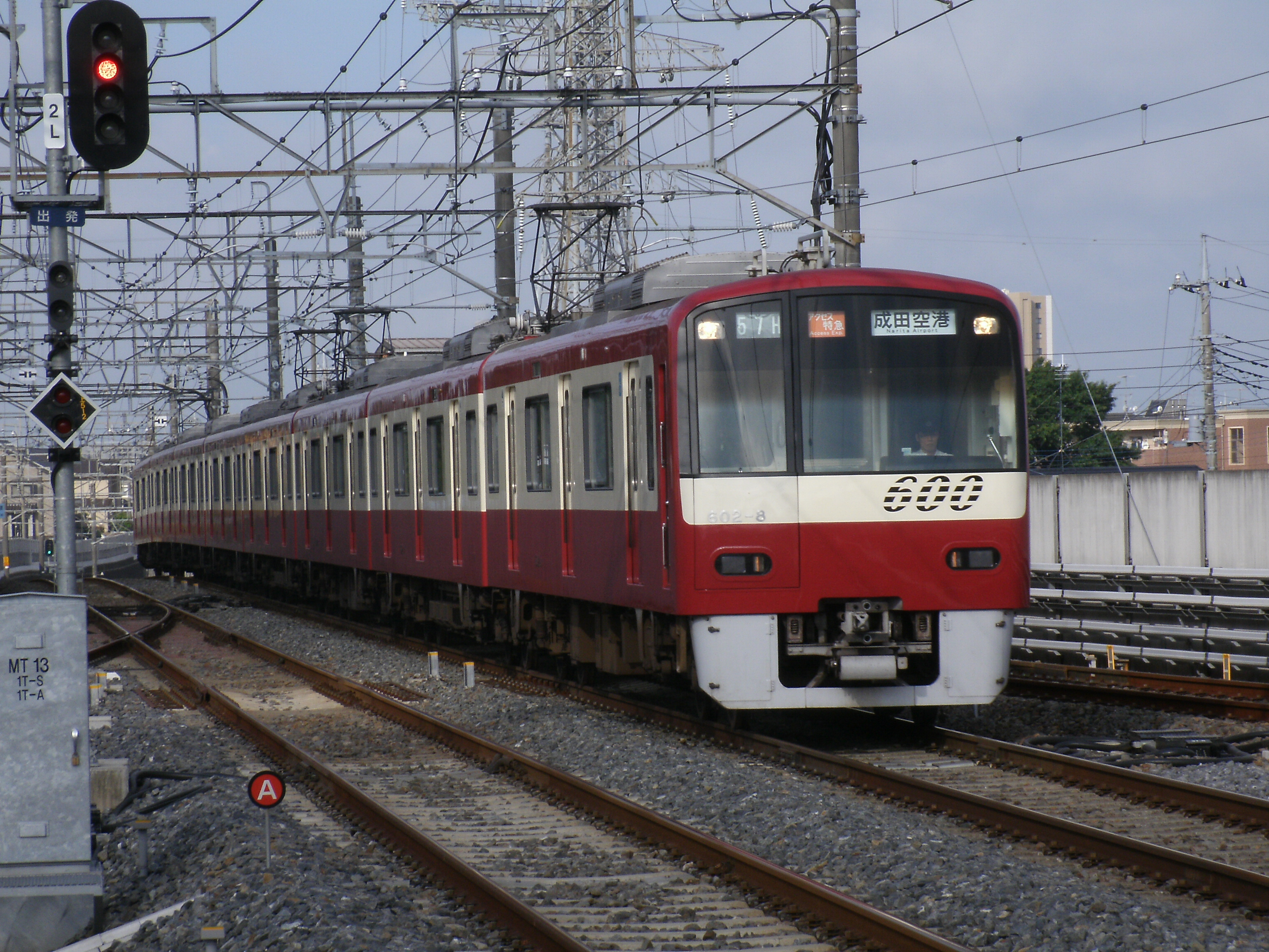 Keikyu 600 series EMU set 602 on an Access Express service at Higashi-Matsudo Station